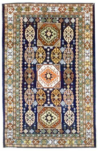 this carpet related to Shirvan Carpet School, is named after Bijo village situated in the present administrative territory of Aghsu district, Azerbaijan